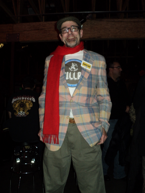 A designated driver at the Visual Arts Collective in Garden City, Idaho, on New Year's Eve 2011. DD badge courtesy State Farm Insurance.